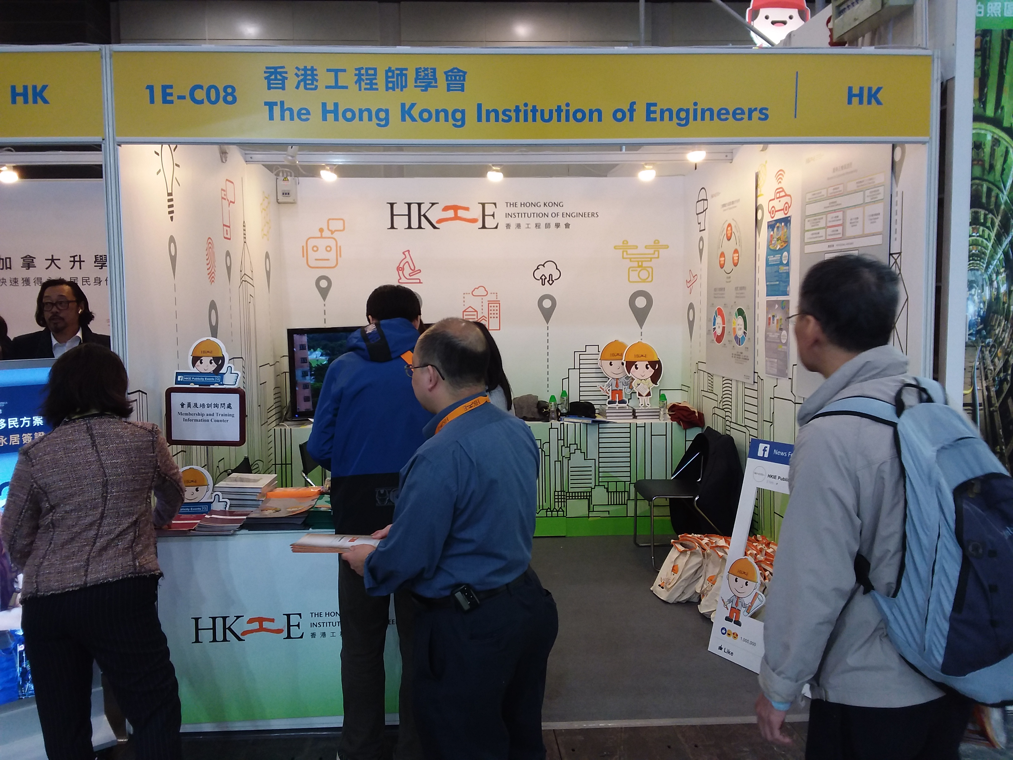 HKCEC 灣仔 Wan Chai 博覽道 No 1 Expo Drive 香港會議展覽中心 Hong Kong Education & Careers Expo 教育及職業博覽 January 2019